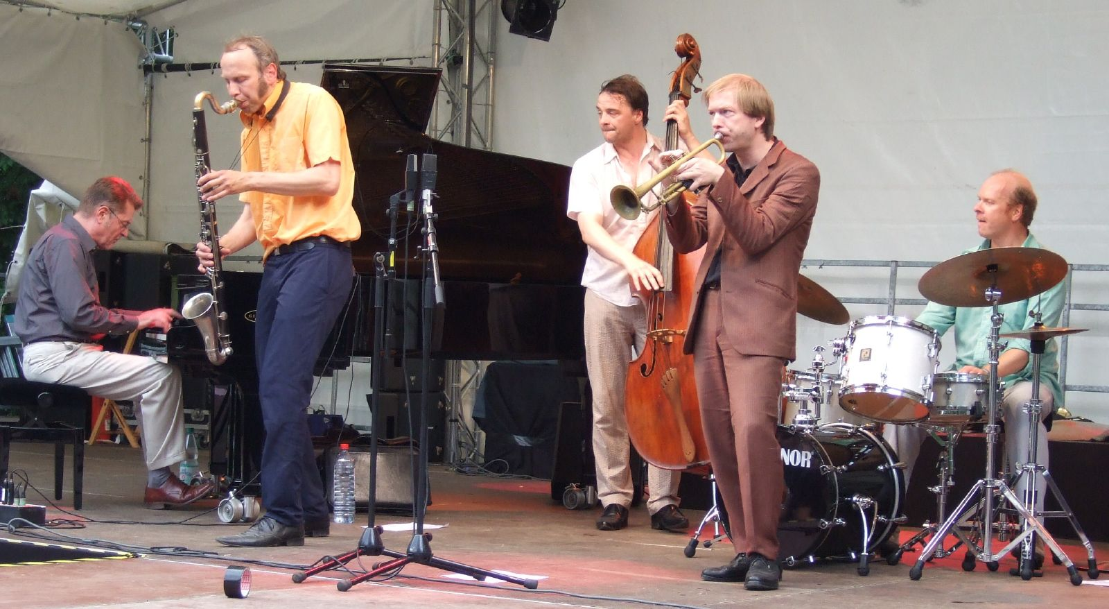 Die Enttäuschung (Rudi Mahall, Axel Dörner, Jan Roder, Uli Jennessen) with pianist Alexander von Schlippenbach, OffsideOpen Festival 2007 at Geldern